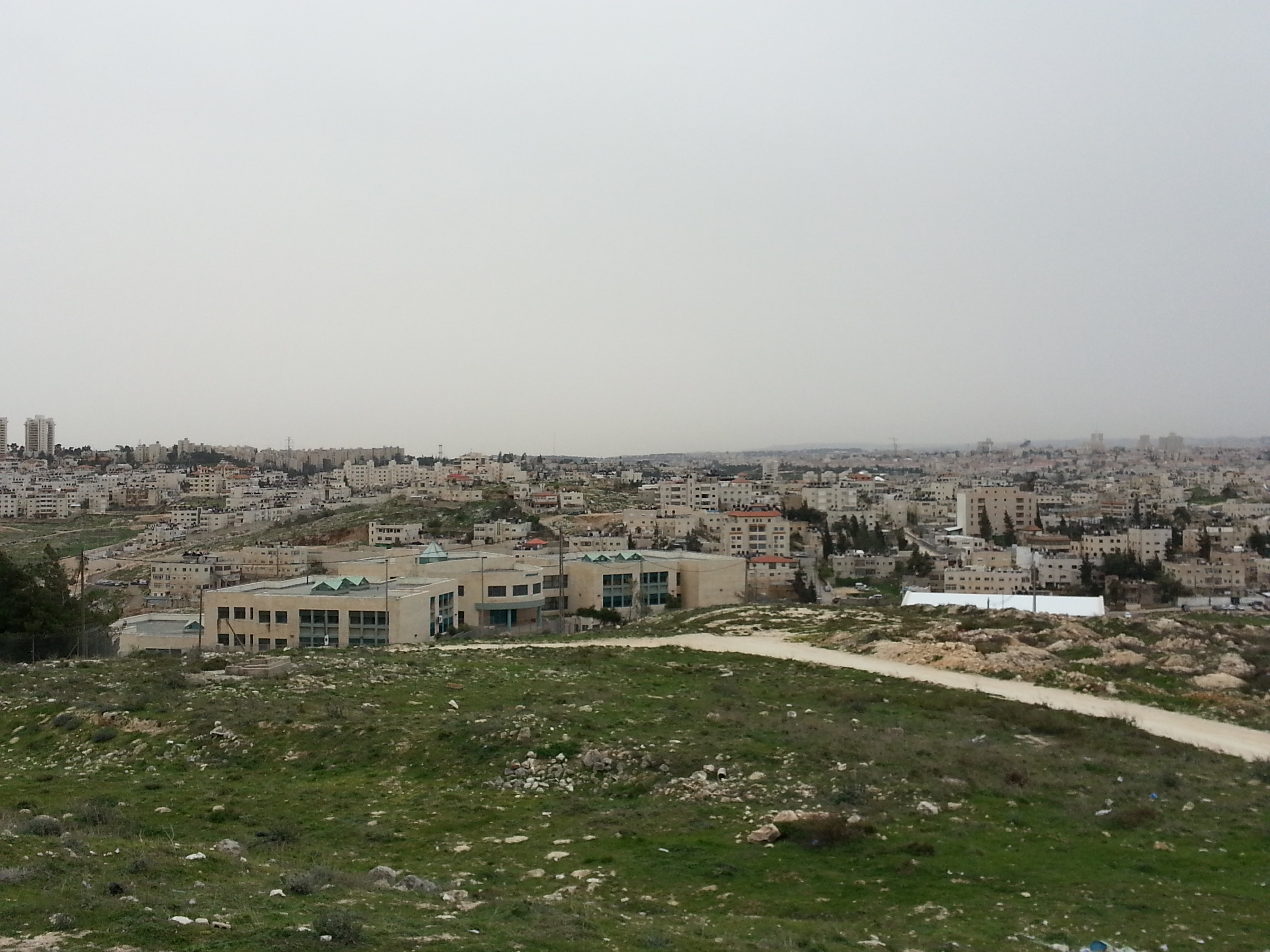 In 1964 King Hussein began building this palace over the ruins of Ancient King Saul's Palace. In 1967, the construction stopped. This is a view from on top of the structure